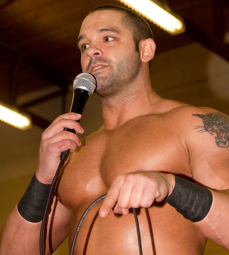 Shawn Spears takes to the microphone at a December 2011 GCW event.